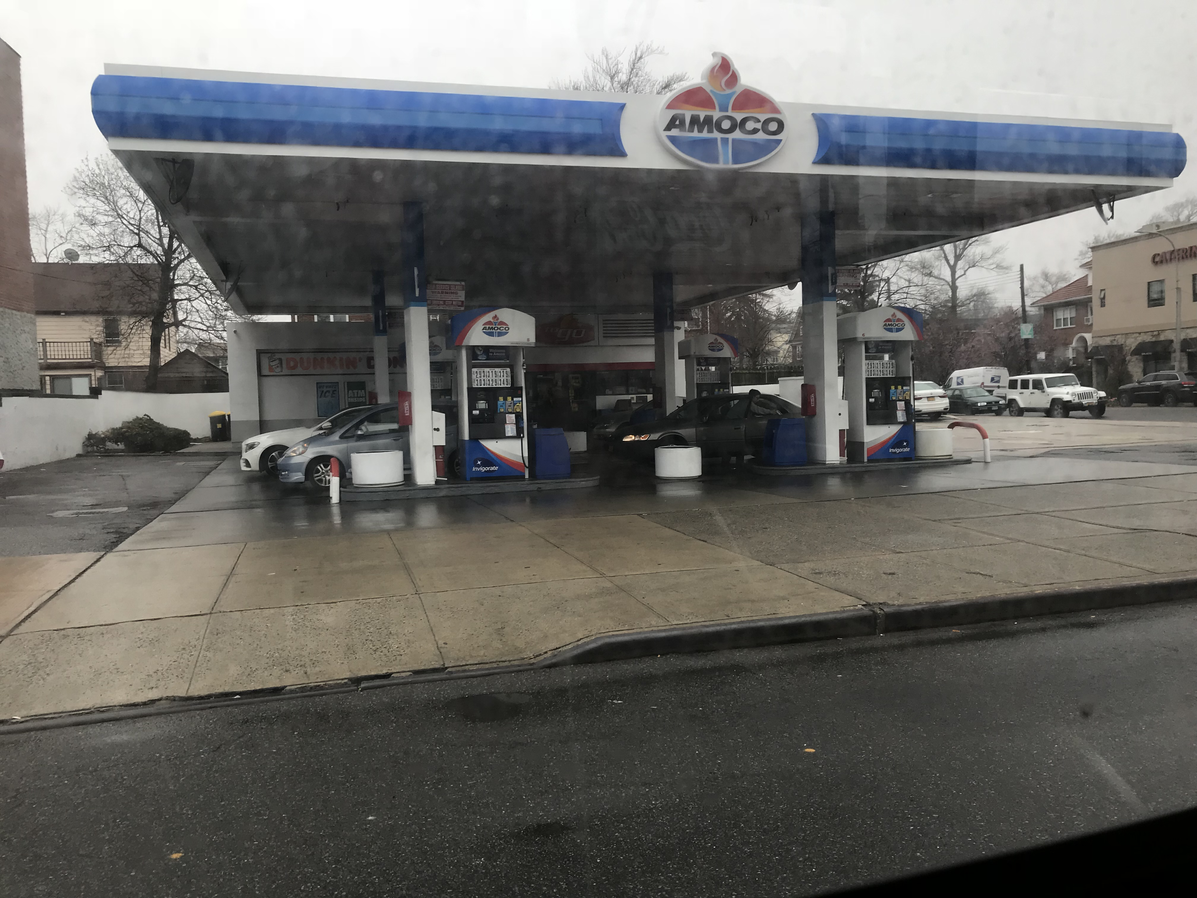 Amoco Gas